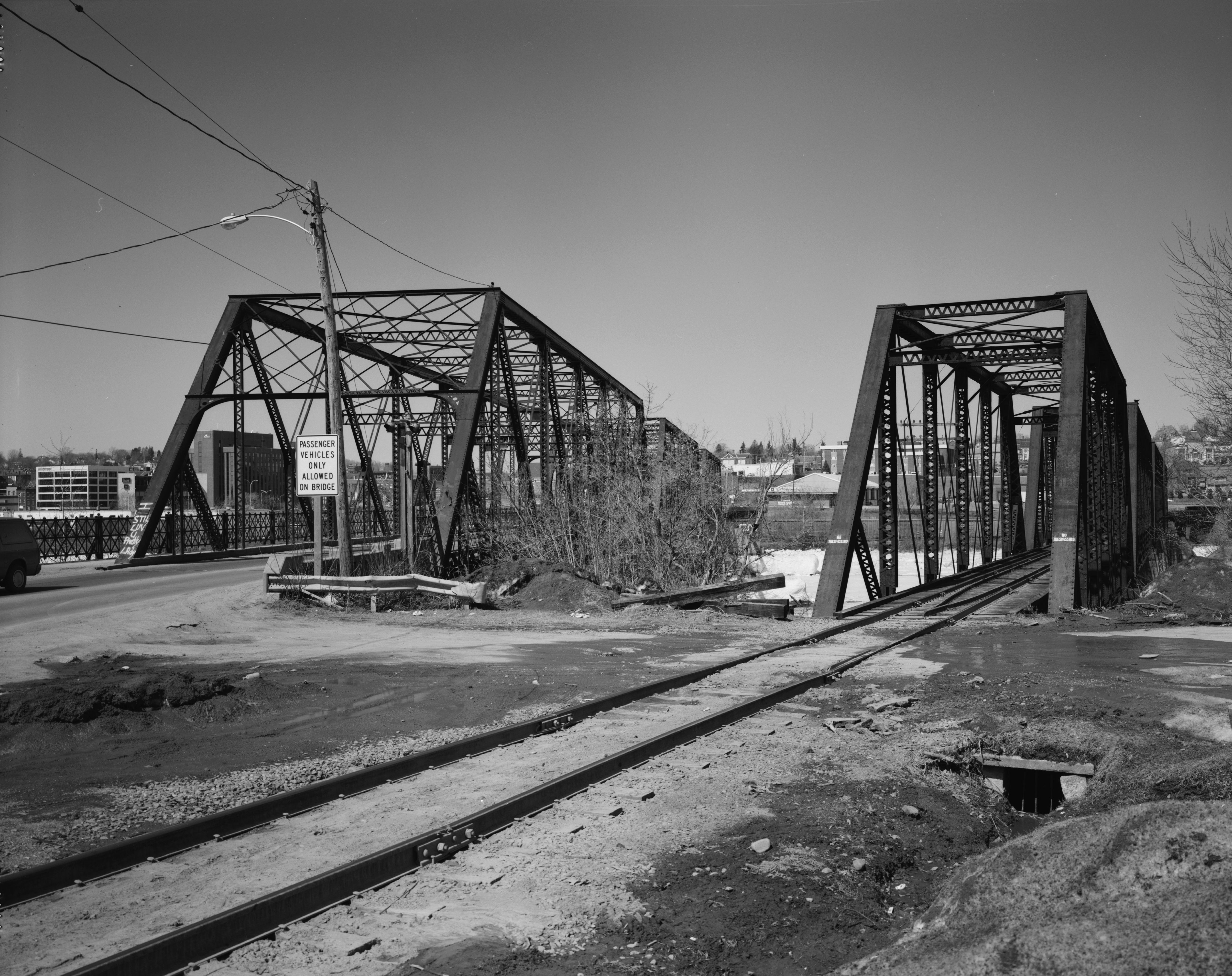 Bangor-Brewer Bridge, Maine. East side (Brewer) approach. Penobscot Bridge at left (replaced in 1997 by the "New Penobscot Bridge"). The railroad bridge on the right (Maine Central Railroad) is extant.